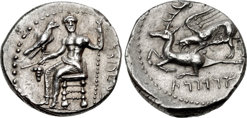 KINGS of CAPPADOCIA. Ariarathes I. 333-322 BC. AR Drachm (19mm, 5.40 g, 4h). Gaziura mint. Baal of Gaziura seated left, torso facing, holding grapes, grain ear, and eagle in extended right hand, lotus-tipped scepter in left; B’L GZYR (in Aramaic) to right / Griffin left attacking stag kneeling left; “Ariarathes” (in Aramaic) below. Simonetta 3a; Simonetta, Coins 1c; HGC 7, 791 var. (no inscription on rev.); SNG von Aulock 6256; SNG Copenhagen 629; BMC 3. Good VF, a little off center, some die wear, slight die shift on reverse. Very rare.